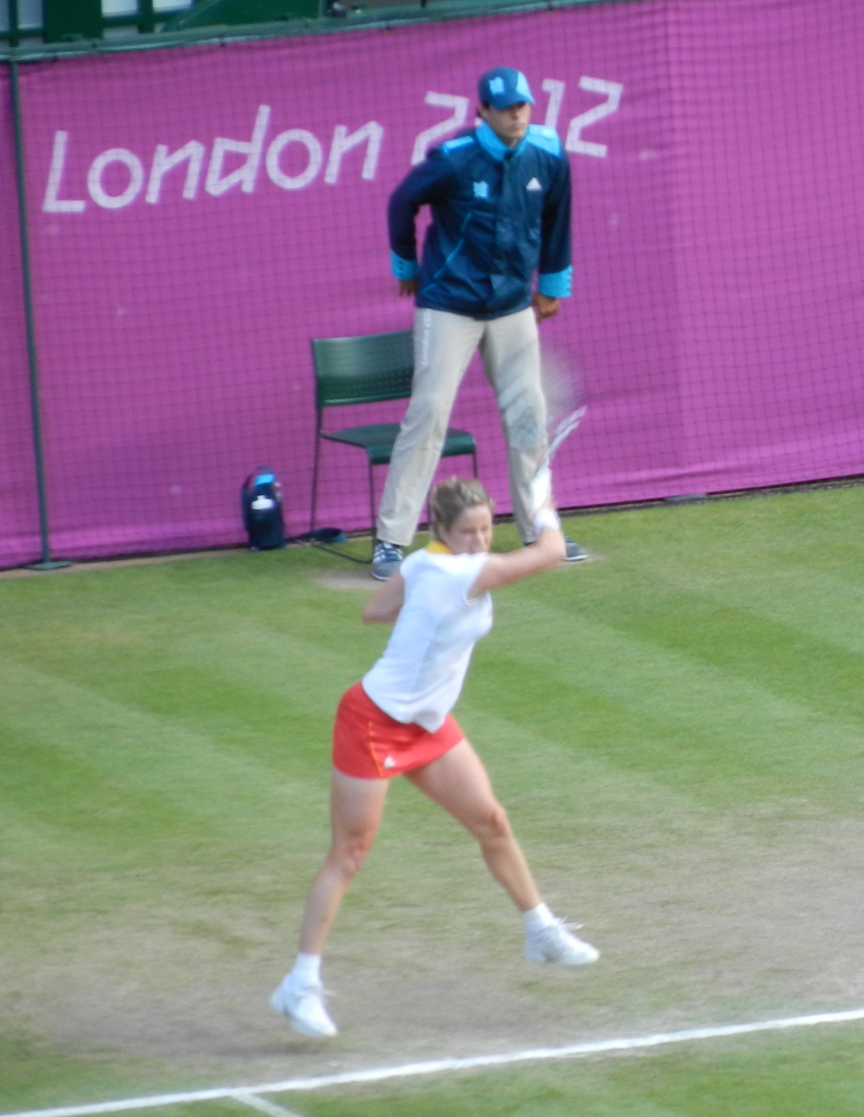 Kim Clijsters at the 2012 Summer Olympics 2012 in london; women's singles quarterfinals, AELTC Centre Court